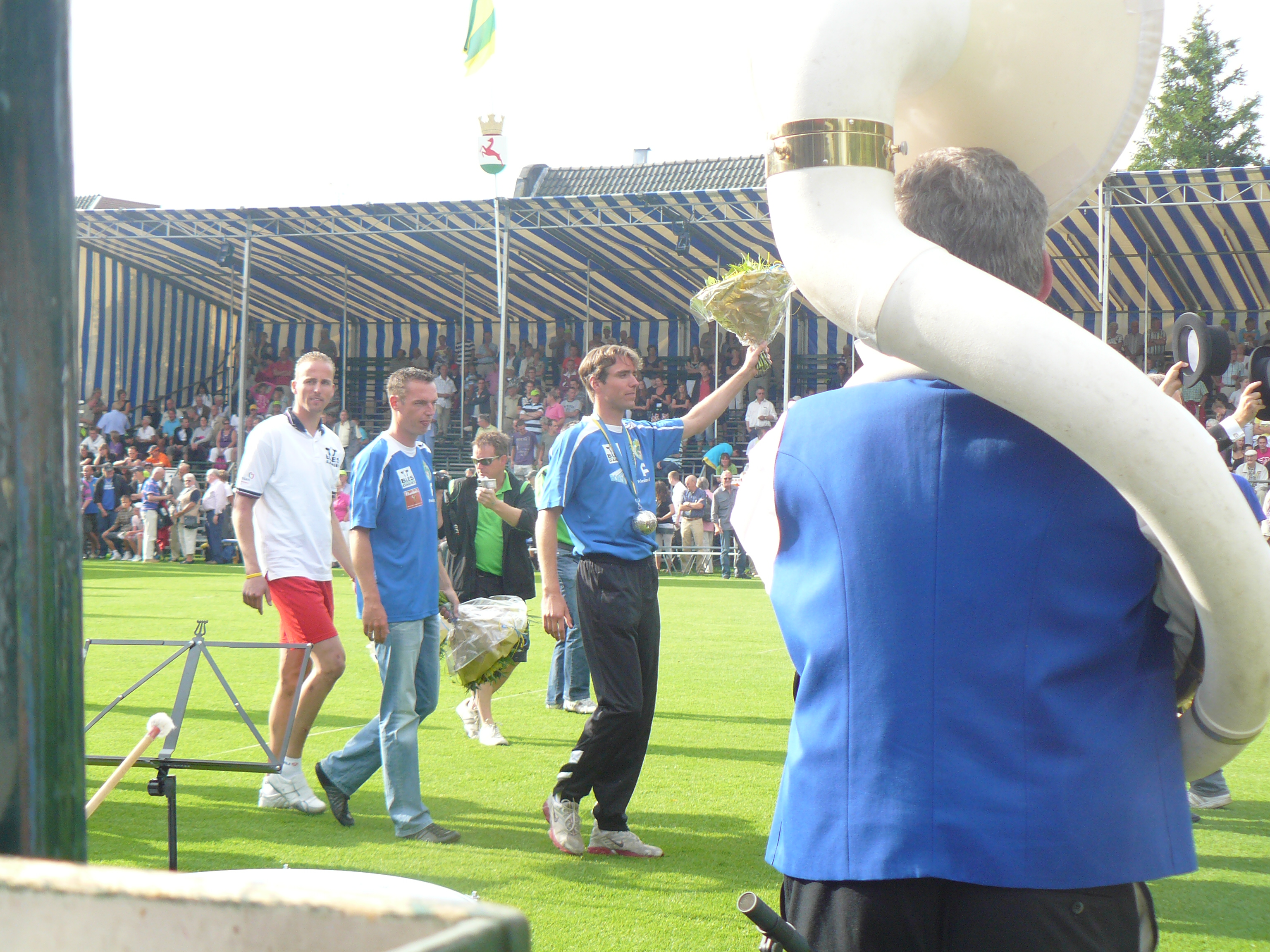 De winners of the previous PC enter the PC-arena on the 2009 edition